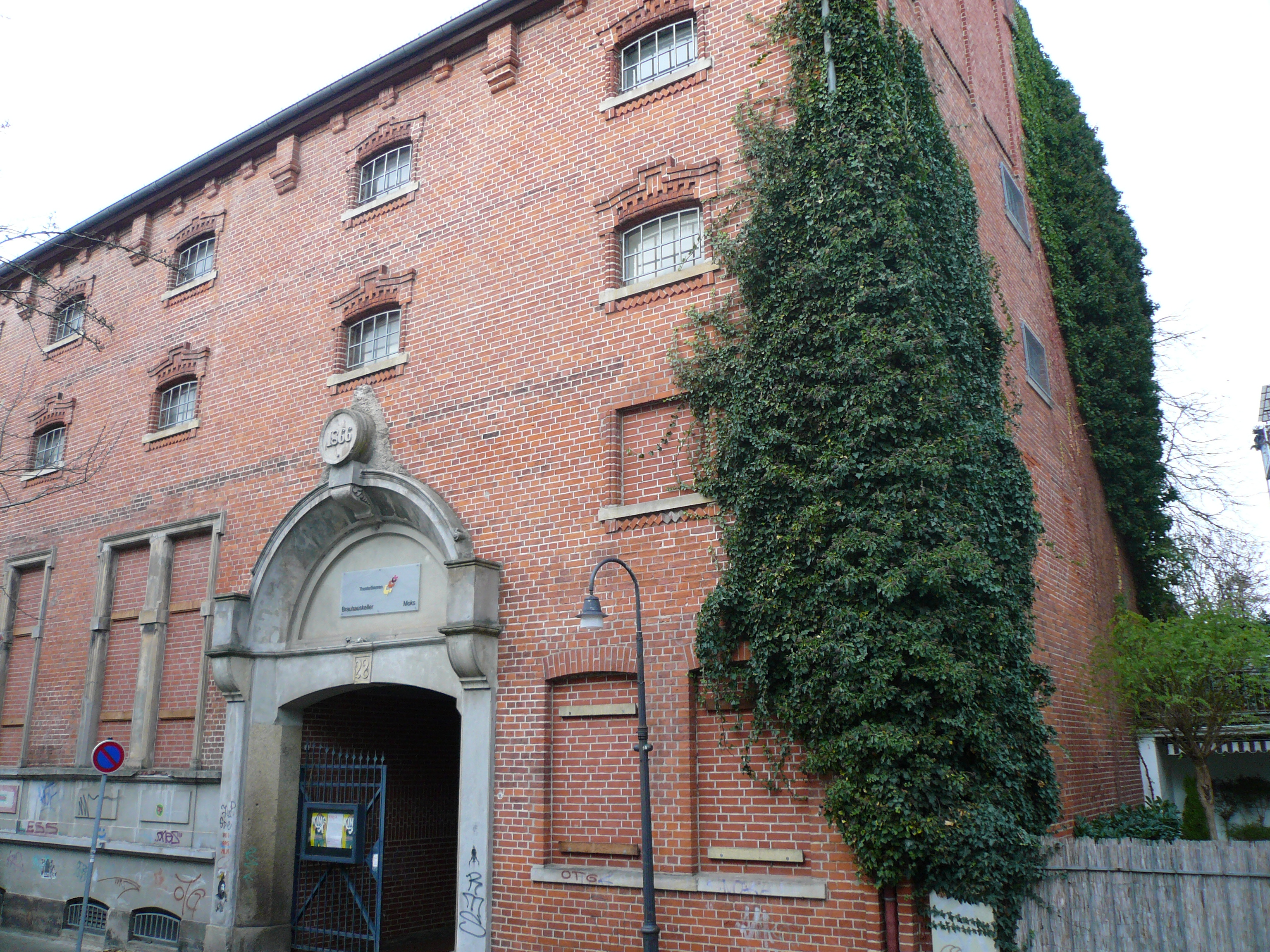 Former St. Pauli-Brauerei (“St. Pauli Brewery”) in the Bleicherstraße in Bremen, Germany. Established in 1857 by Lüder Rutenberg and bought in 1918 by Beck & Co. Now the building hosts two playhouses of the Theater Bremen.